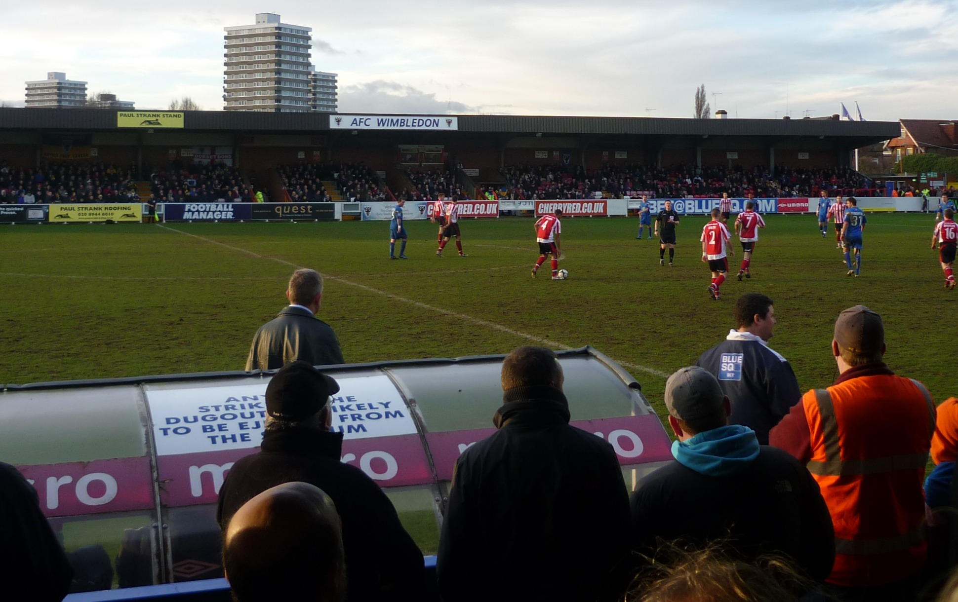 Saturday afternoon at AFC Wimbledon